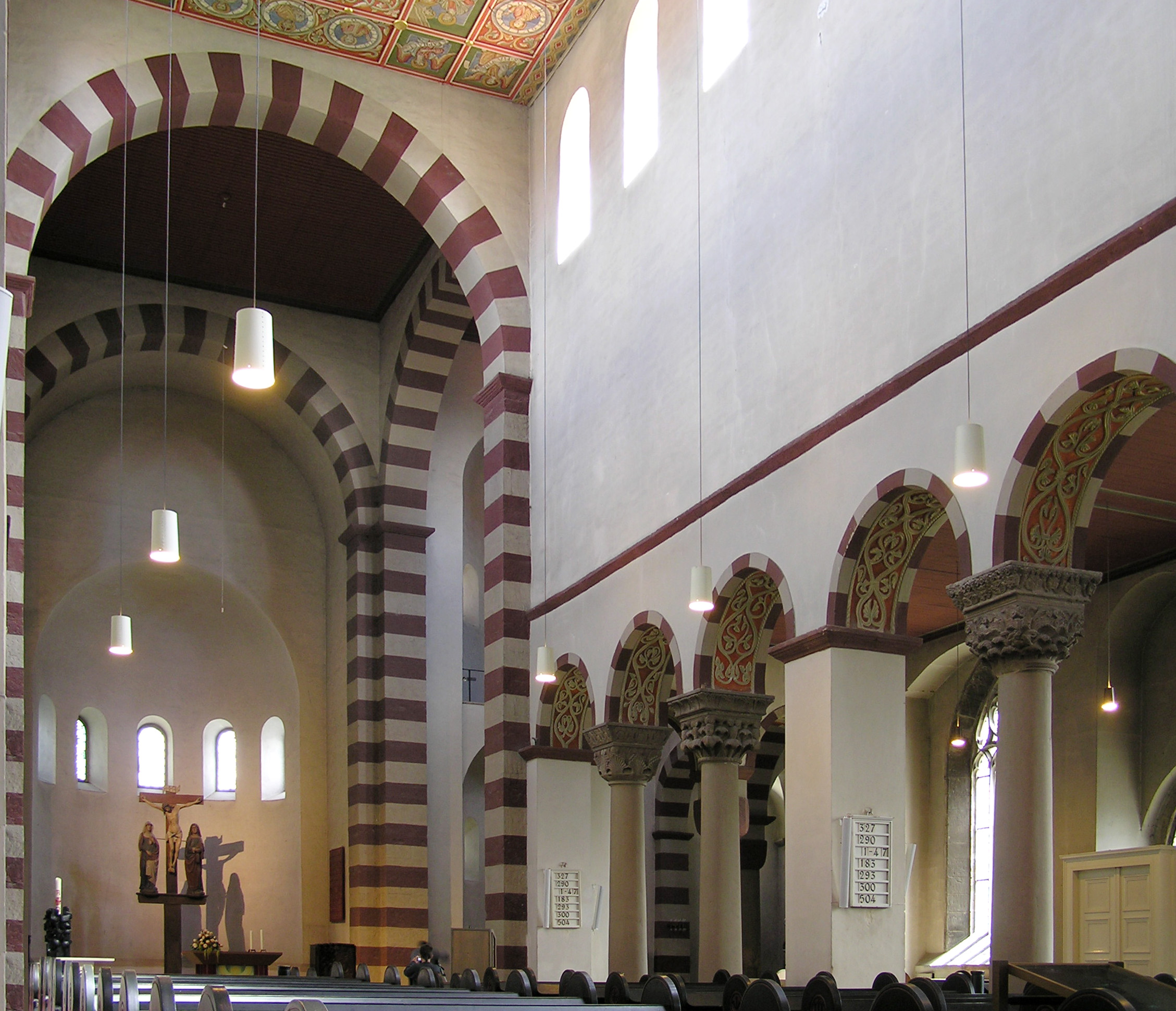 Hildesheim St. Michael, Interior